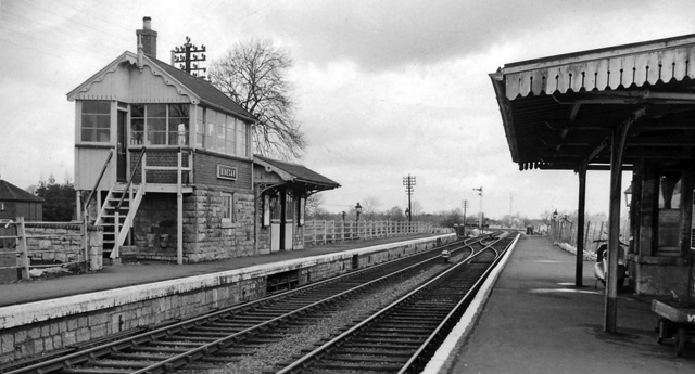 Binegar Station. View NE, towards Bath; Somerset & Dorset Bath - Templecombe - Bournemouth line, high up in Mendip Hills. Station and line closed 7/3/66.